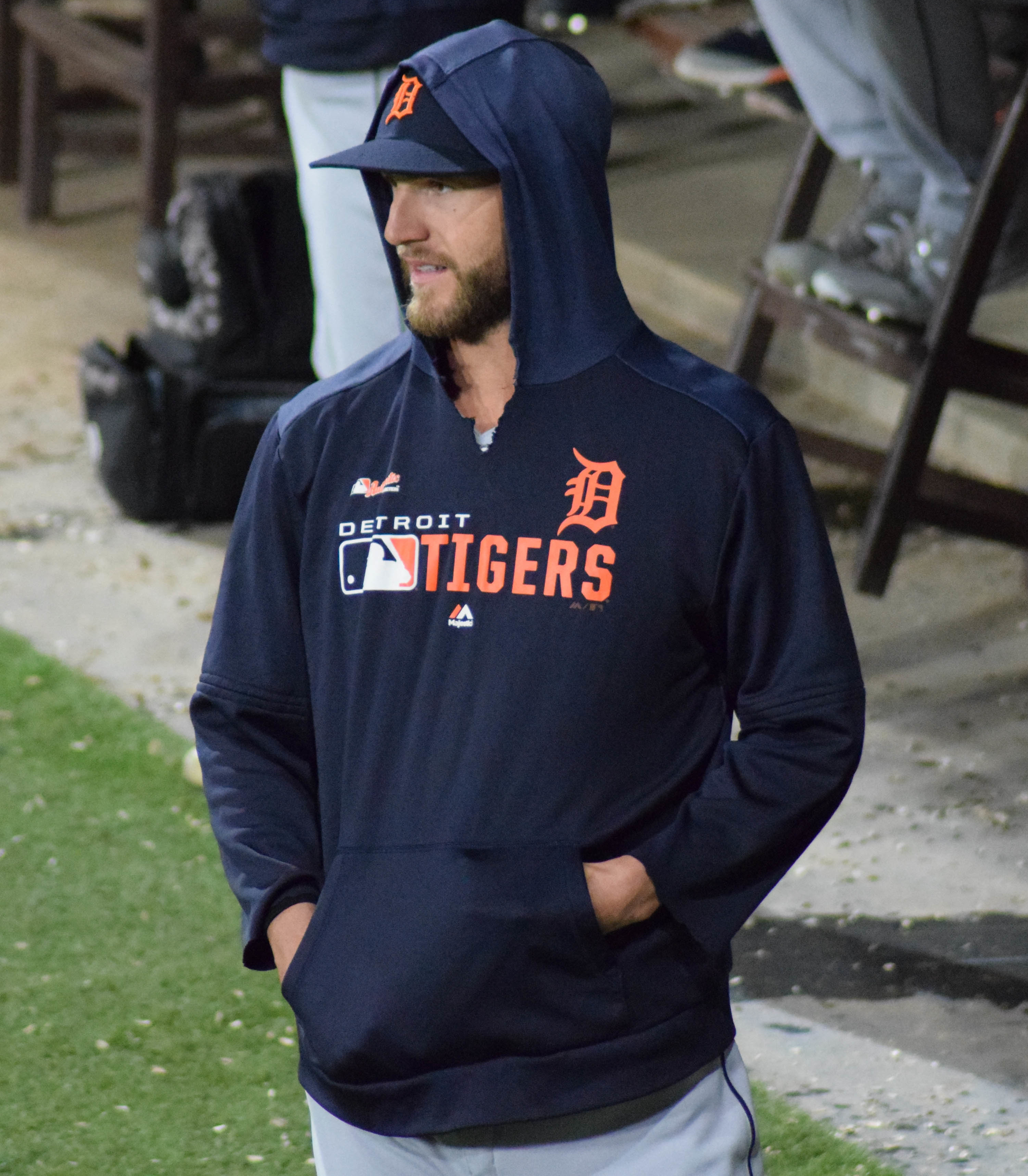 Shane Greene with the Detroit Tigers in the bullpen at Citizens Bank Park in 2019.